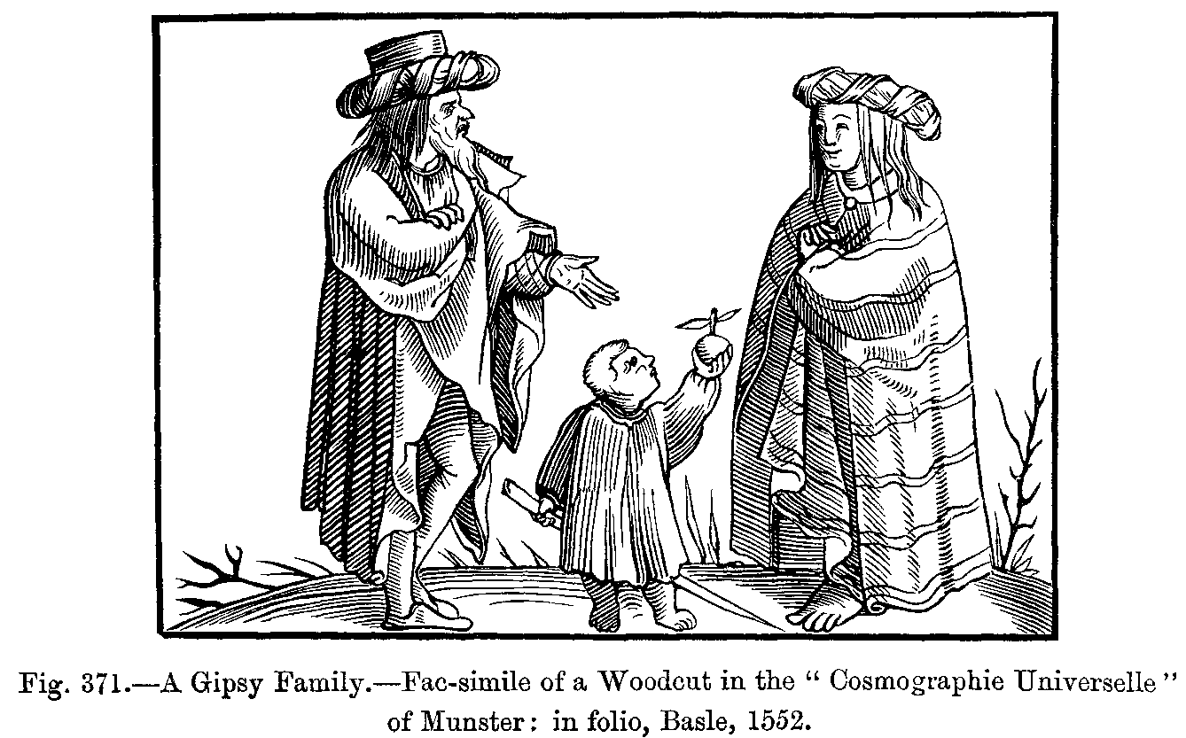 A Gipsy Family.--Fac-simile of a Woodcut in the "Cosmographie Universelle" of Munster: in folio, Basle, 1552.